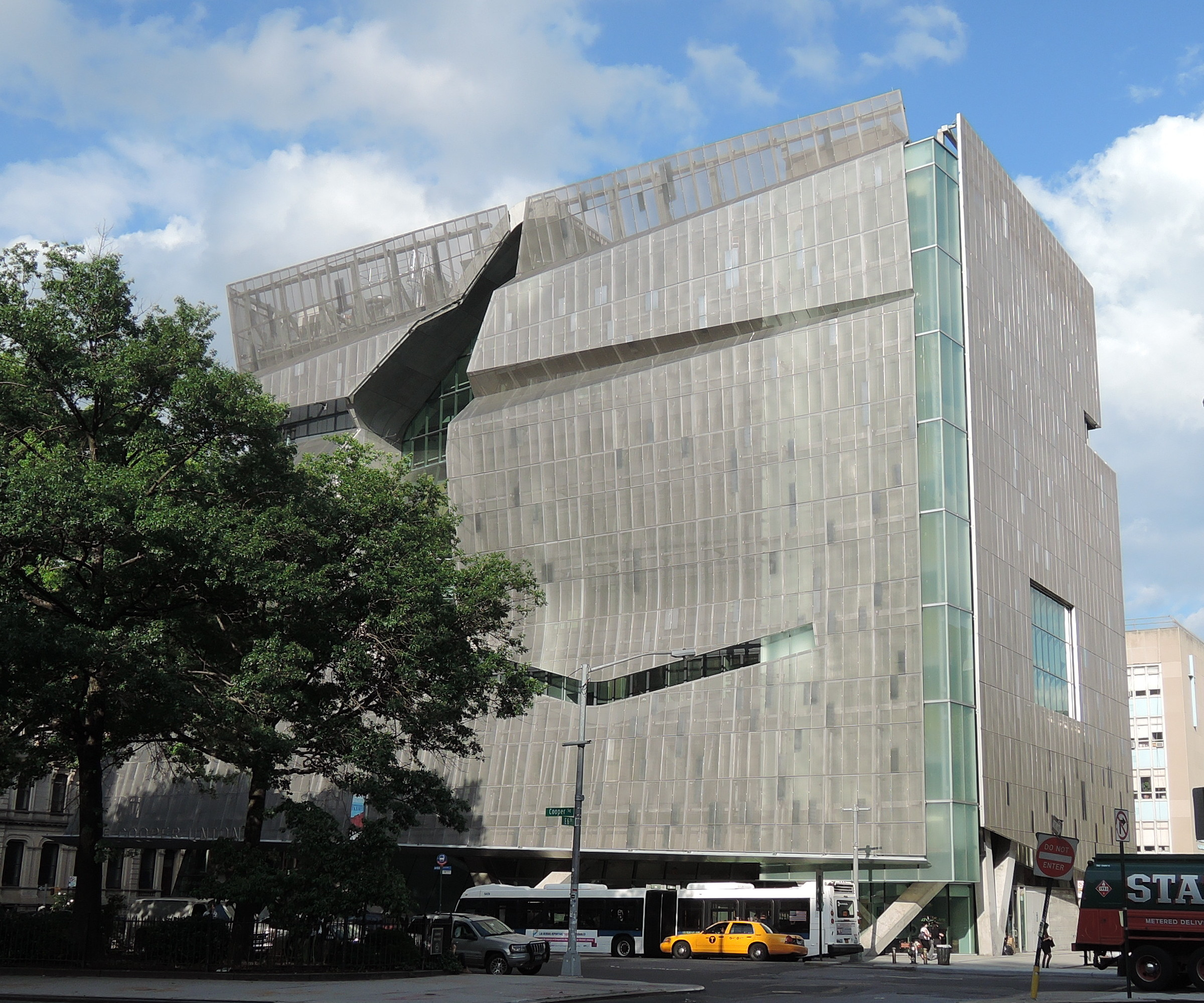 Looking east across Cooper Square on a sunny day.